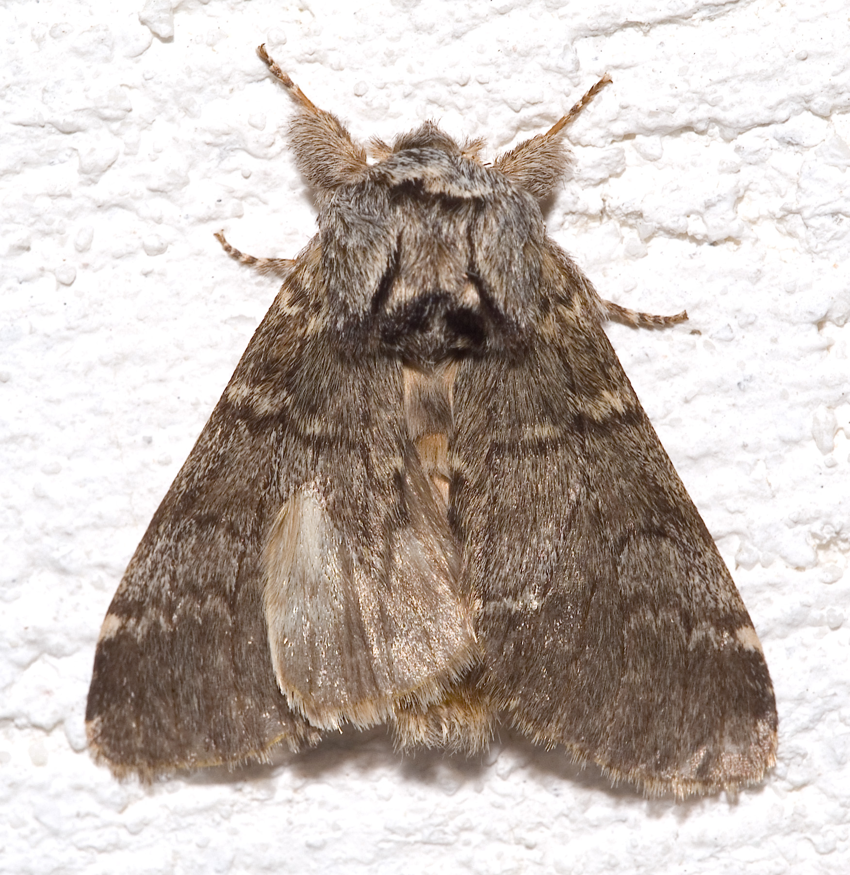 Please report references to kulacgmx.at.